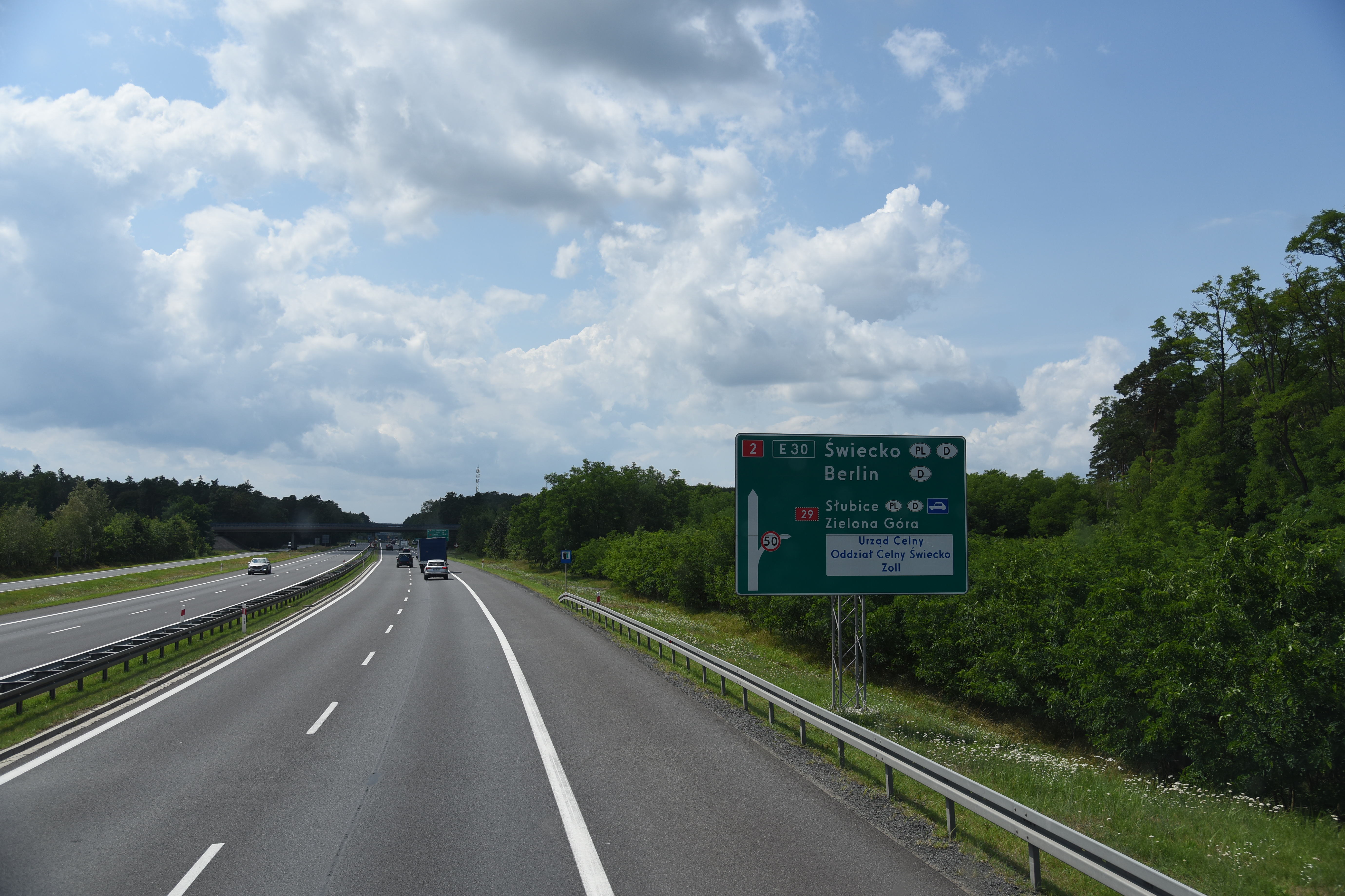 Autostrada A2